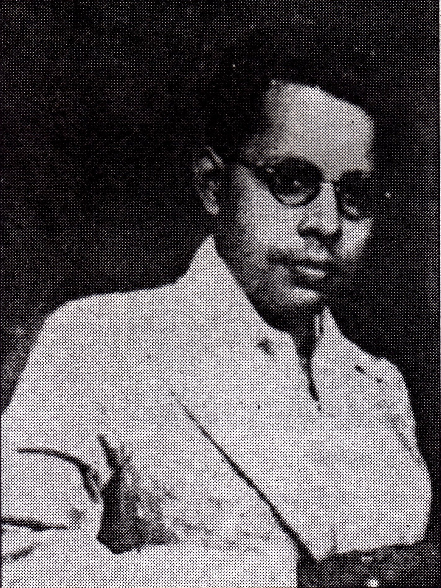 Sudhangshu Dasgupta, joined tram worker movements in 1938. He was a Communist Party of India (Marxist) leader and founder of the Desh Hitaishee, journal of West Bengal Communist Party. Dasgupta joined Communist Party of India in 1936.